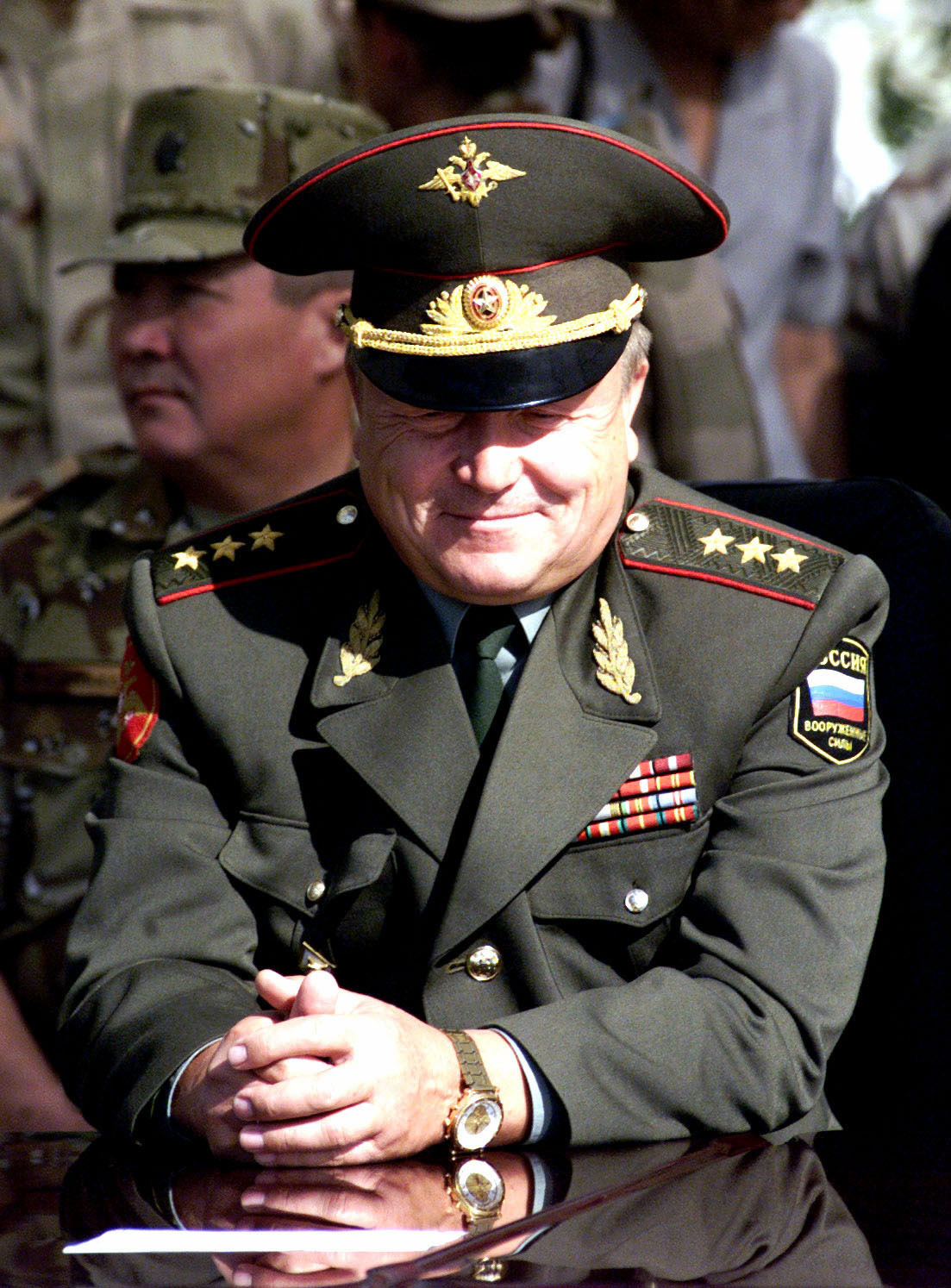 Russian Commander Colonel General Anatoly Sergeev, watches the opening ceremonies of the Central Asian Peacekeeping Batalion (CENTRASBAT) 2000, Almaty, Kazakhstan